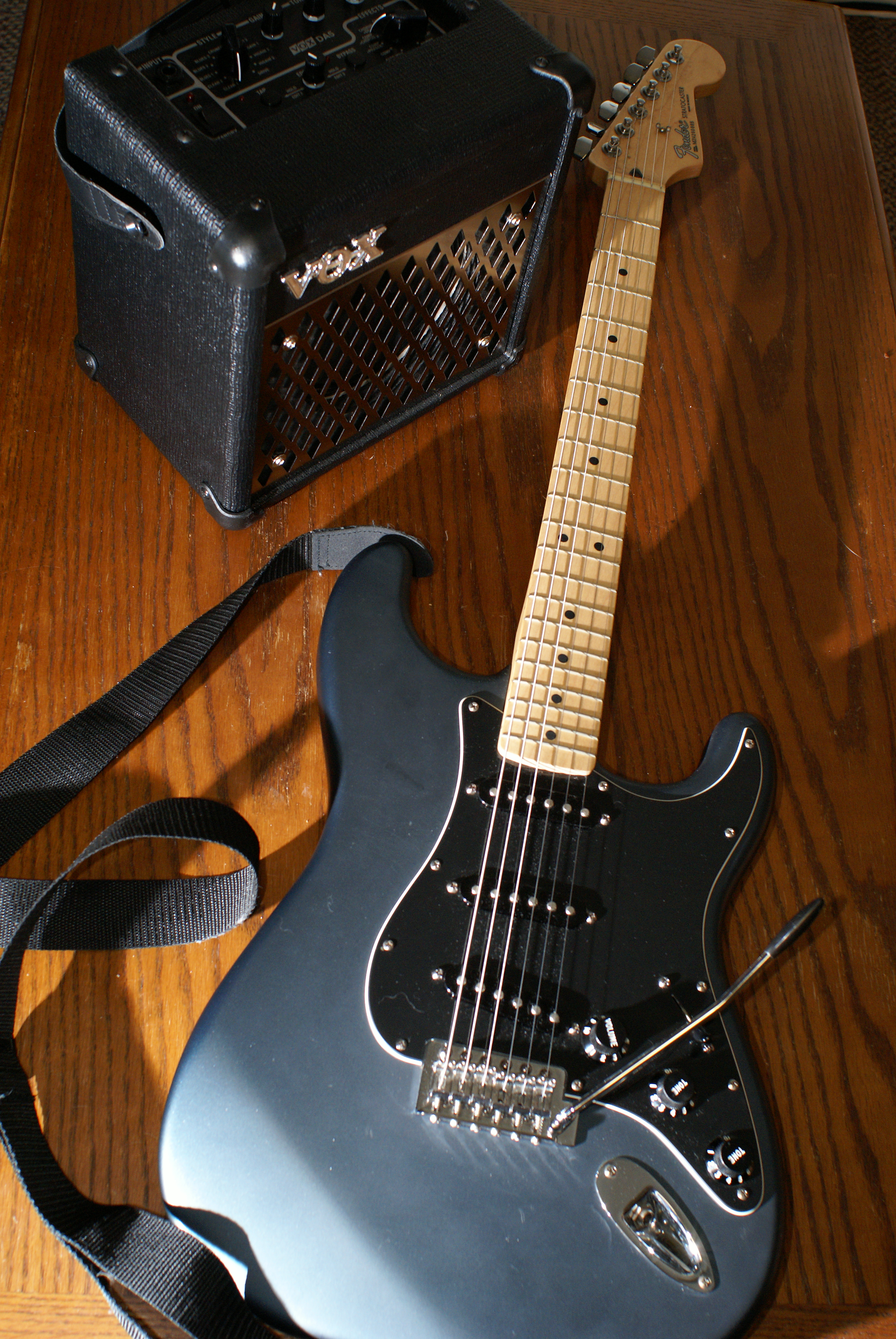 A 2004 Fender Stratocaster guitar with a Whammy Bar, and a Vox DA5 amplifier.